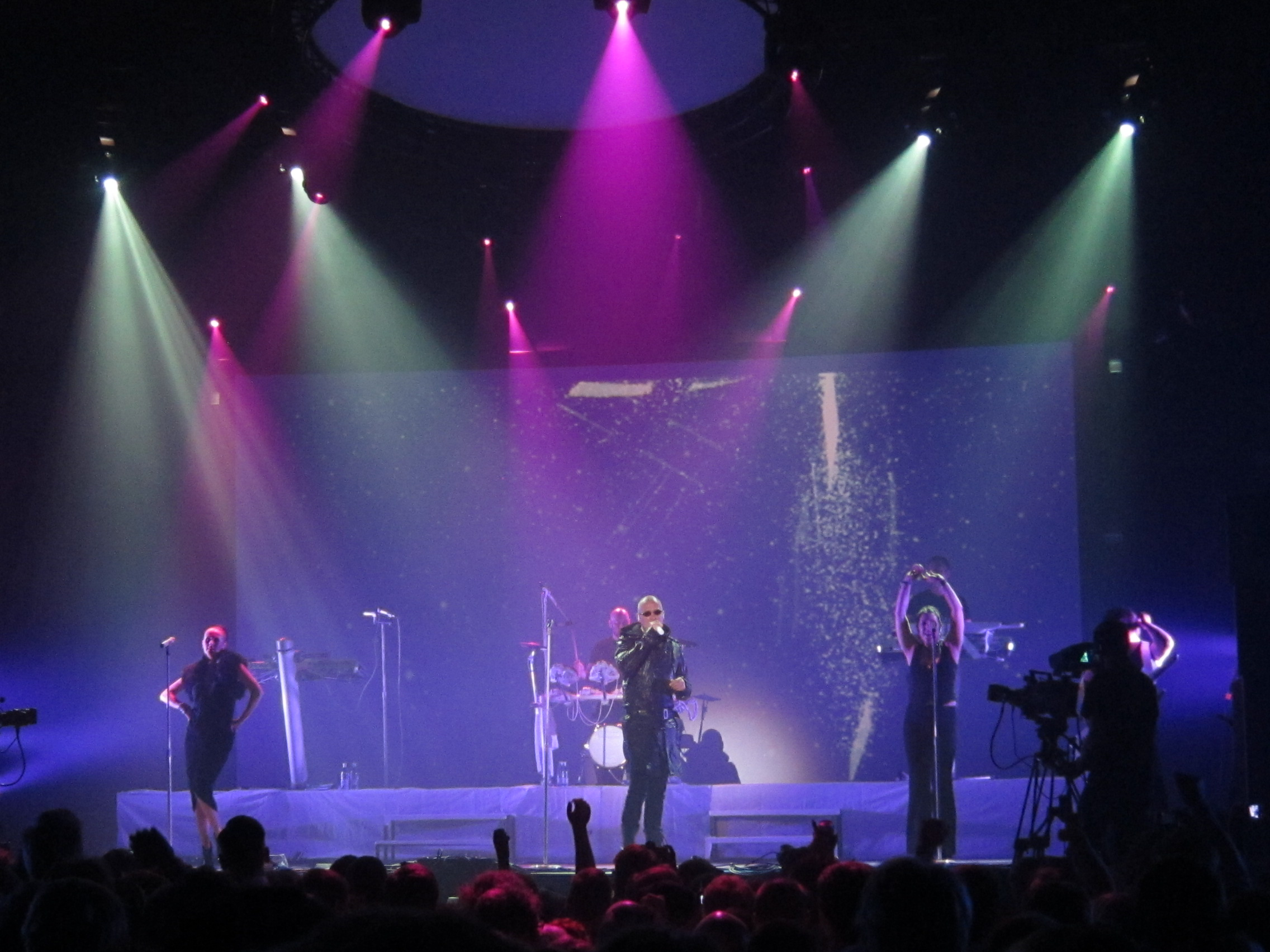 Flow Festival on 12–14 August 2011 in Helsinki, Finland